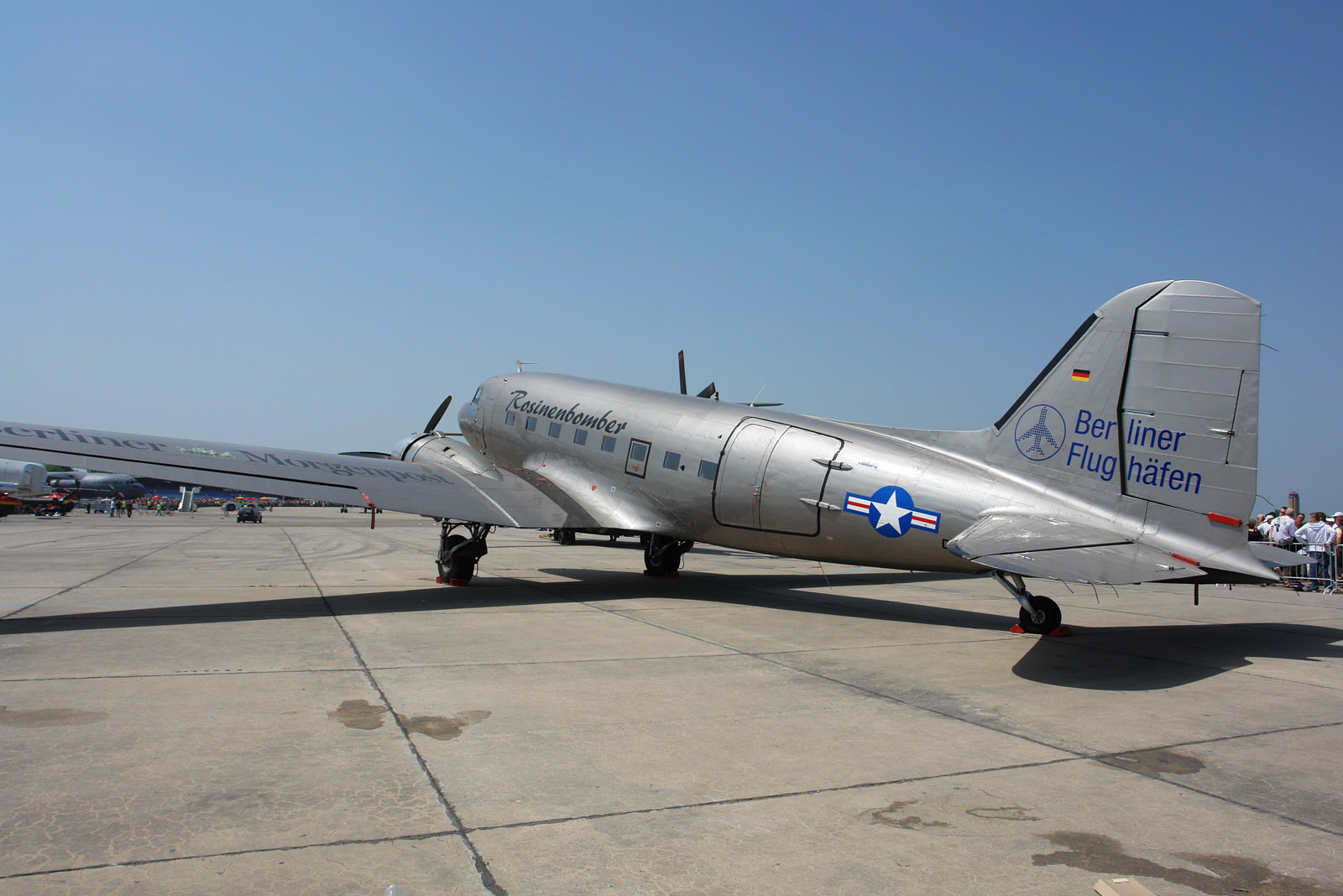 Douglas DC-3 "Rosinenbomber" at the ILA 2008 in Berlin.